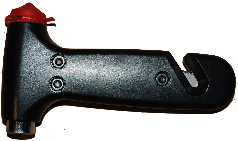 Handheld glass breaker and seatbelt cutter. made by Duluth